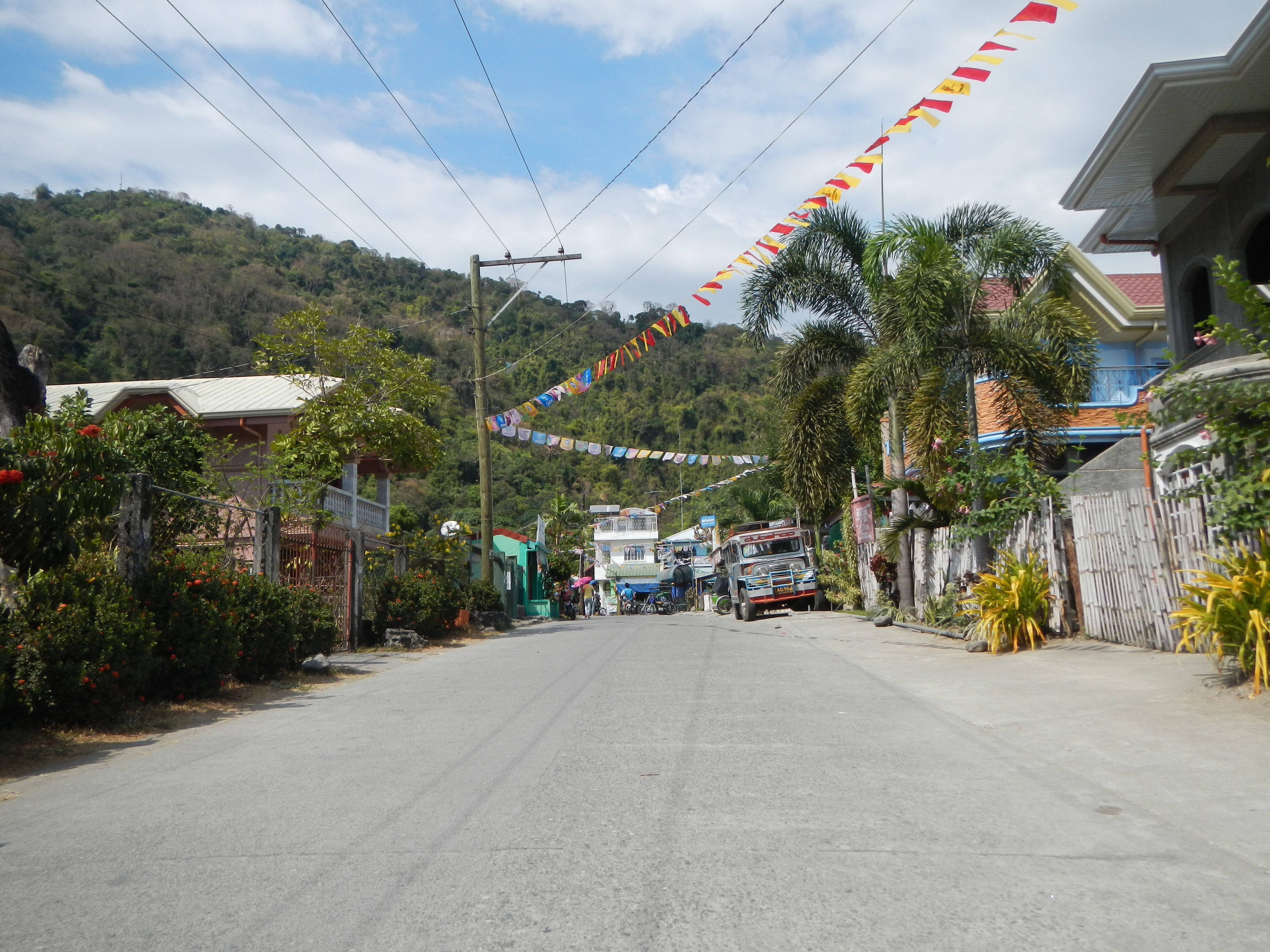 Saint Joseph, the Husband of Mary Parish Church (Bagulin, La Union) Bagulin, La Union, La Union Province (of the Roman Catholic Diocese of San Fernando de La Union, Vicariate of St. Peter the Apostle, Vicar Forane: Msgr. Gregorio Q. Nillo, PC F-1984 2512 La Union, Philippines Titular: St. Joseph, the Husband of Mary Feast March 19 Parish Priest: Father Marlon Jose A. Singson).